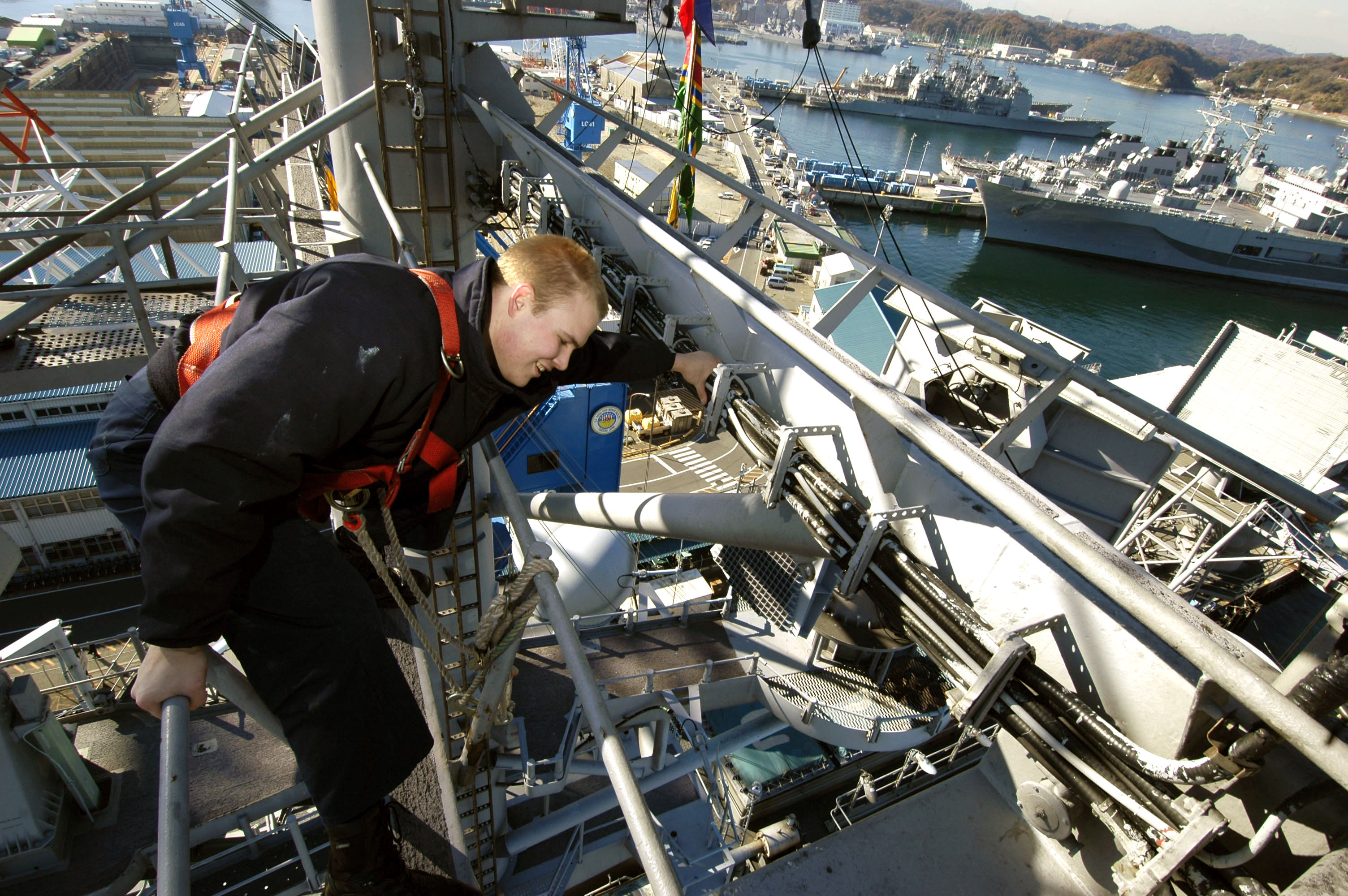 Yokosuka, Japan (Dec. 20, 2005) - Quartermaster Seaman Matthew Lenerville, secures a safety line on railing while working aloft to hang holiday lights on the mast aboard the conventionally-powered aircraft carrier USS Kitty Hawk (CV 63). Currently in port, Kitty Hawk is the only permanently forward-deployed aircraft carrier, and is home ported out of Yokosuka, Japan. U.S. Navy photo by Photographer's Mate Airman Benjamin Dennis (RELEASED)